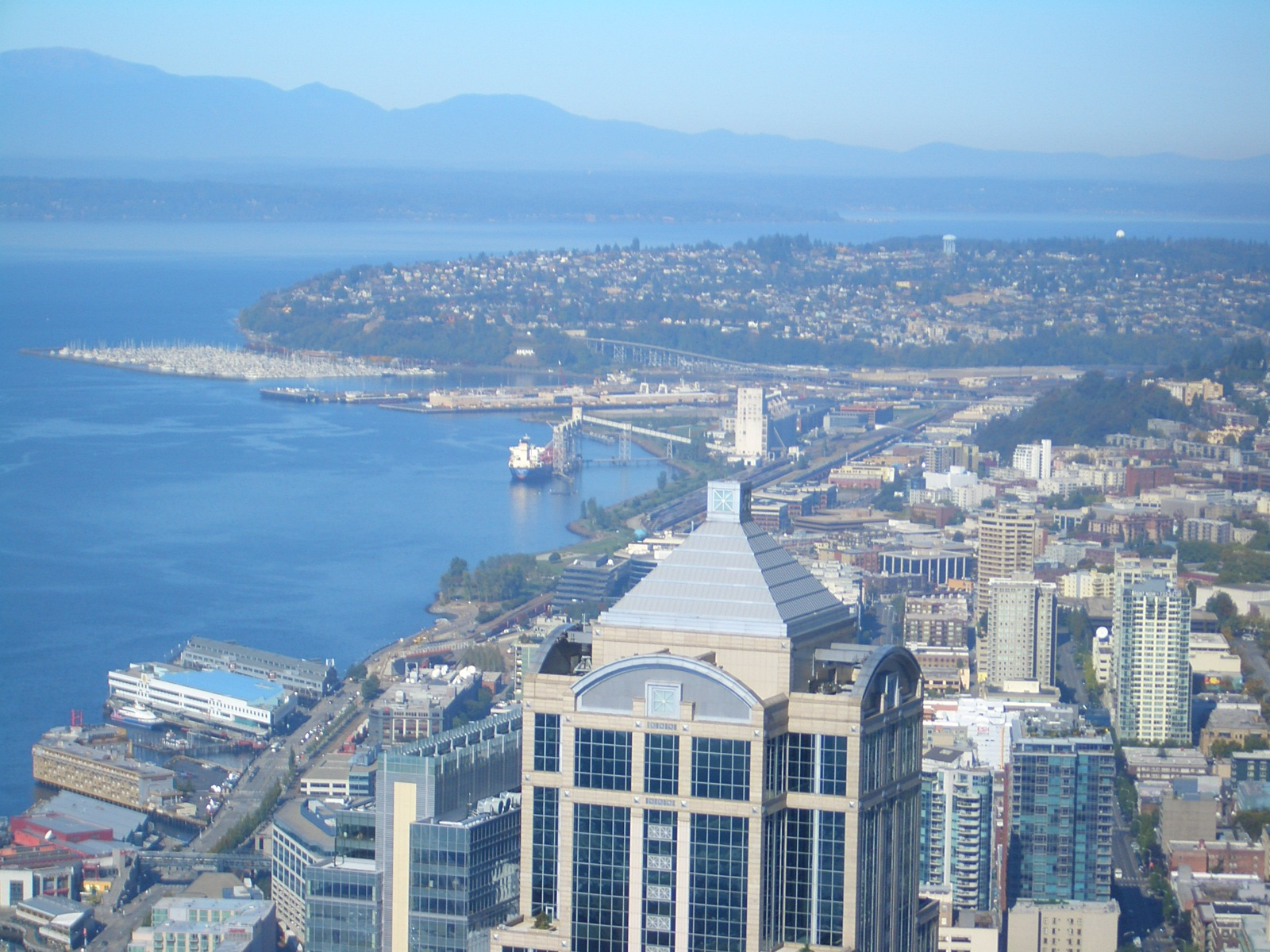 A view of Seattle looking north from the observation deck of Columbia Center. North downtown, grain terminal, and Magnolia can be seen.